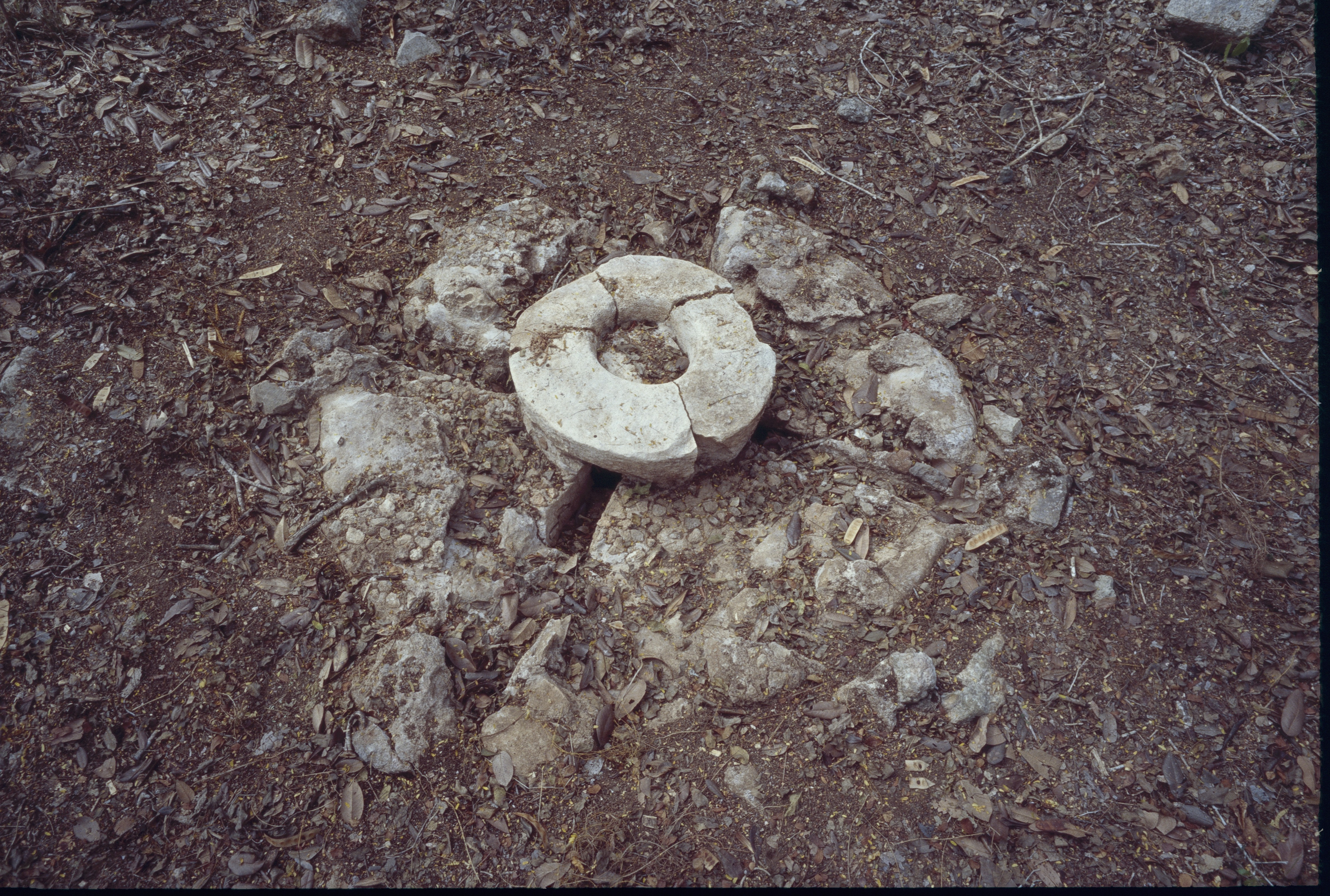 Xkipché, Yucatán, Mexico: Chultun, entrance consolidated with enty channels, ring and cap.